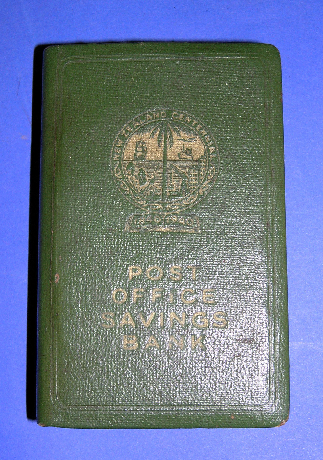 NZ Post Office Savings Bank money box, circa 1940 - NZ Centennial issue